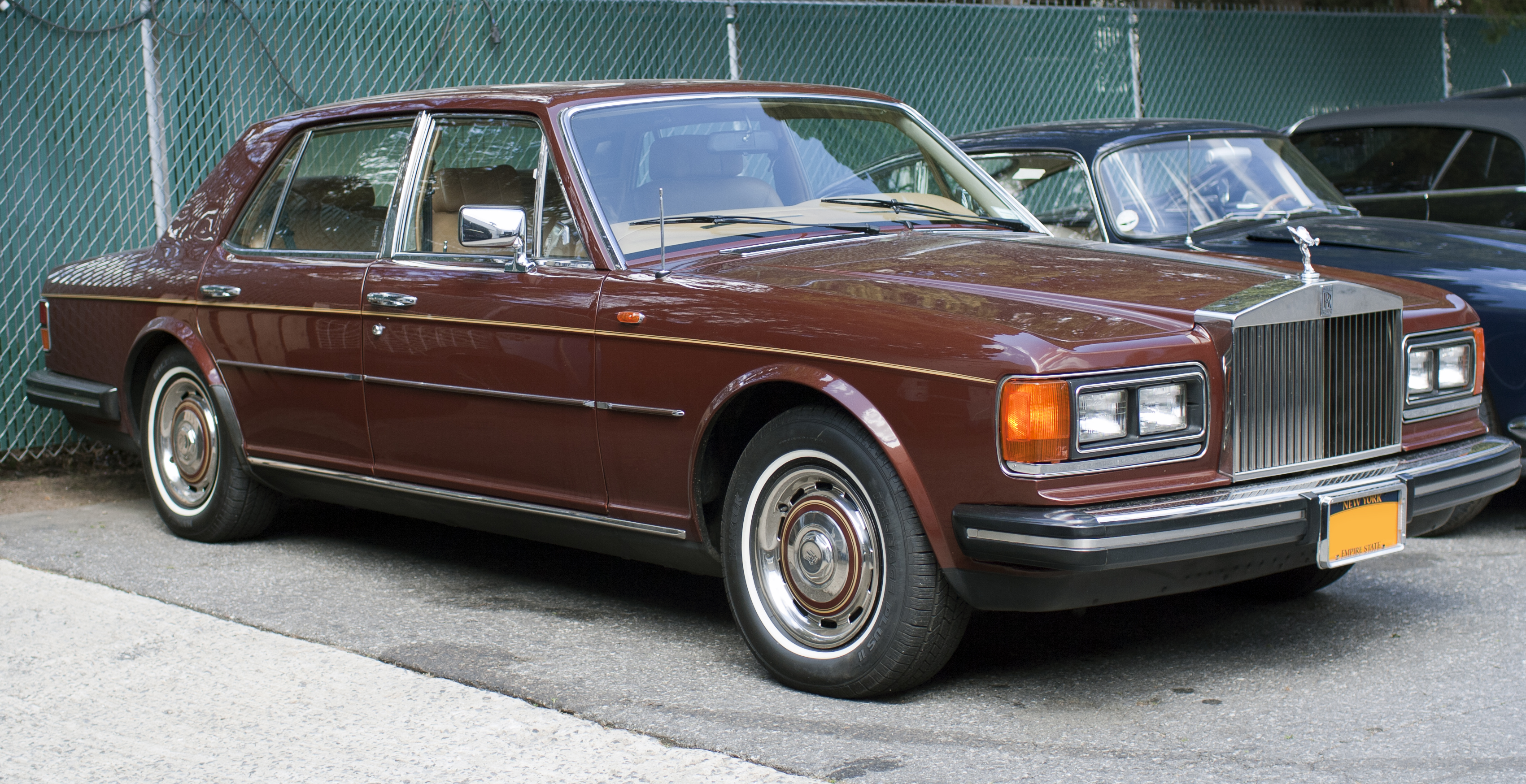 1982 Rolls-Royce Silver Spirit in a particularly charming brown, seen in Greenwich, CT. US market model with active seatbelts and catalytic converter (engine code 42).